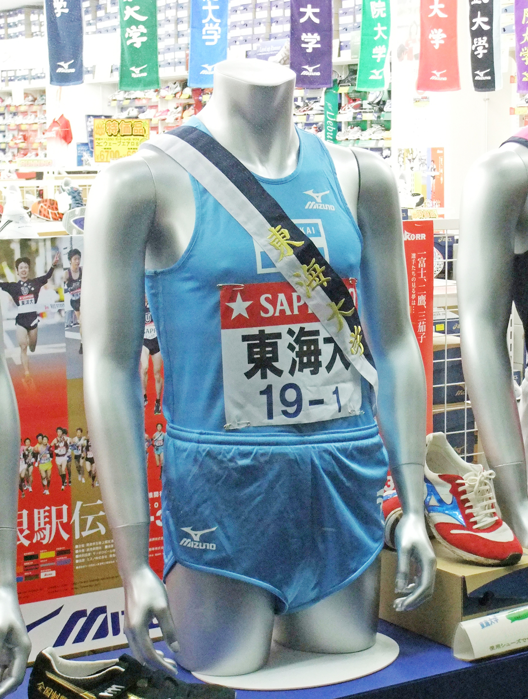 Tokai University, Track team uniform